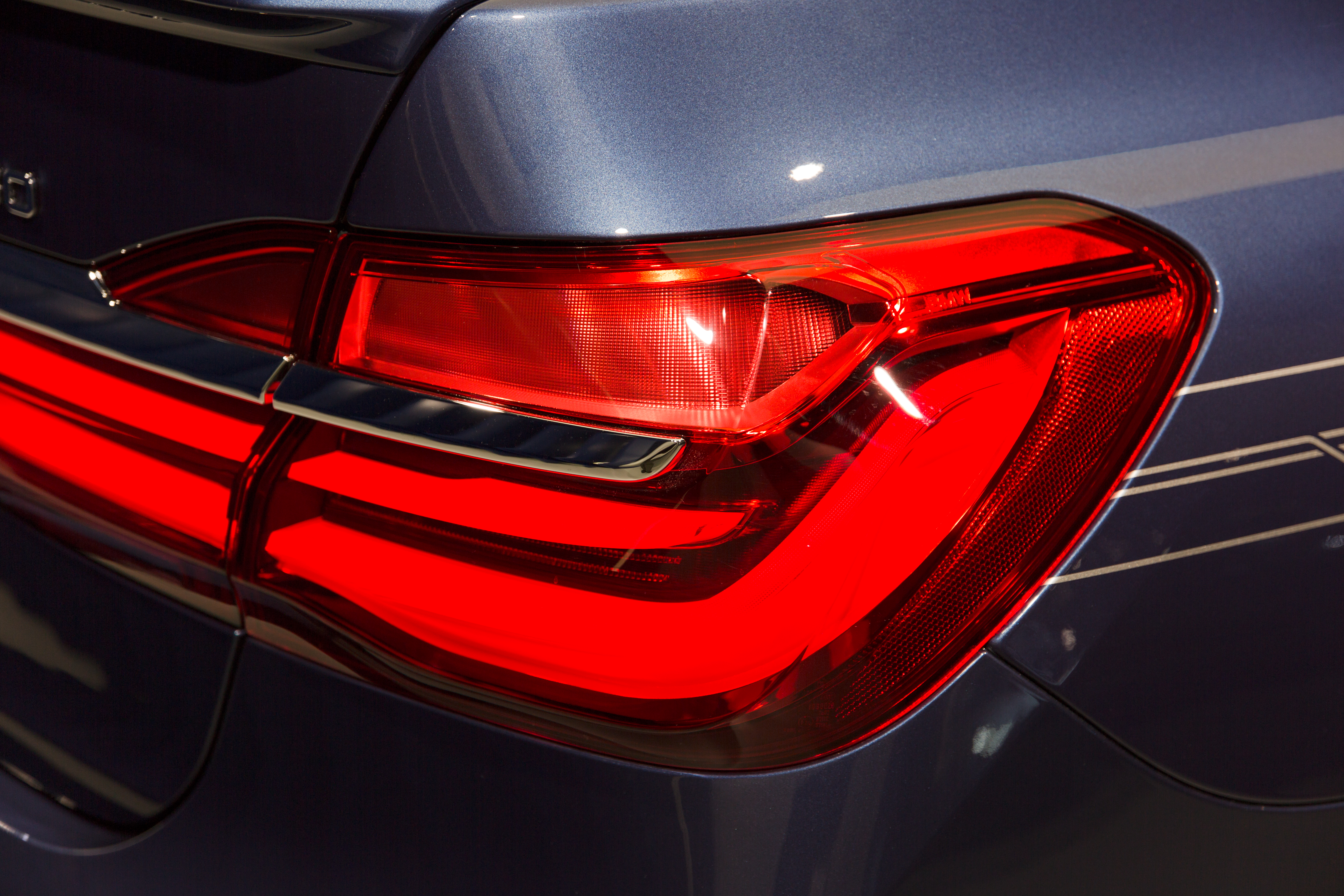 Alpina B7 Biturbo, IAA 2017